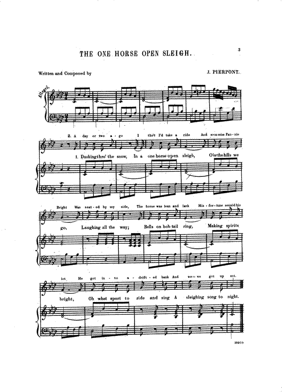 An original arrangement of "The One Horse Open Sleigh" at The Library of Congress.